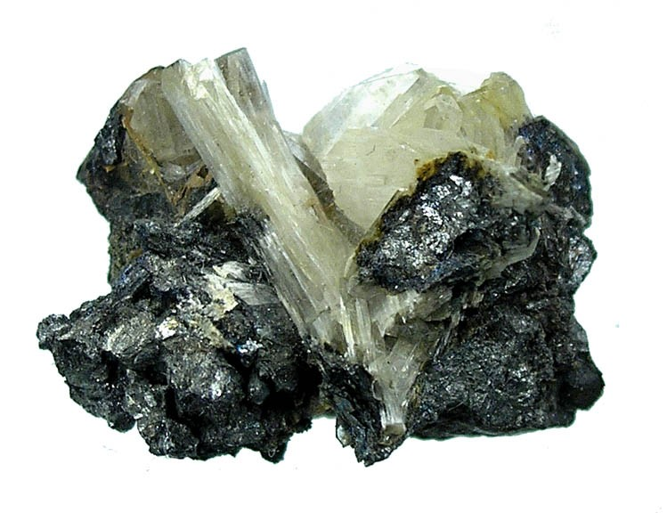 Valentinite Locality: Colavi Mine, Machacamarca District (Colavi District), Cornelio Saavedra Province, Potosí Department, Bolivia (Locality at ) This is a fine example of the rare Antimony Oxide, Valentinite (Pronounced: Vah-LEN-tin-ite). The piece features sharp, fine quality, prismatic crystals of Valentinite sitting atop massive Galena. This specimen was mined 6 years ago, and I have not seen any more specimens from this mine since that time. Heres a great chance to have a matrix specimen of a very hard to find mineral. Species collectors out there should jump on this one. 2.0 x 1.6 x 1.1cm